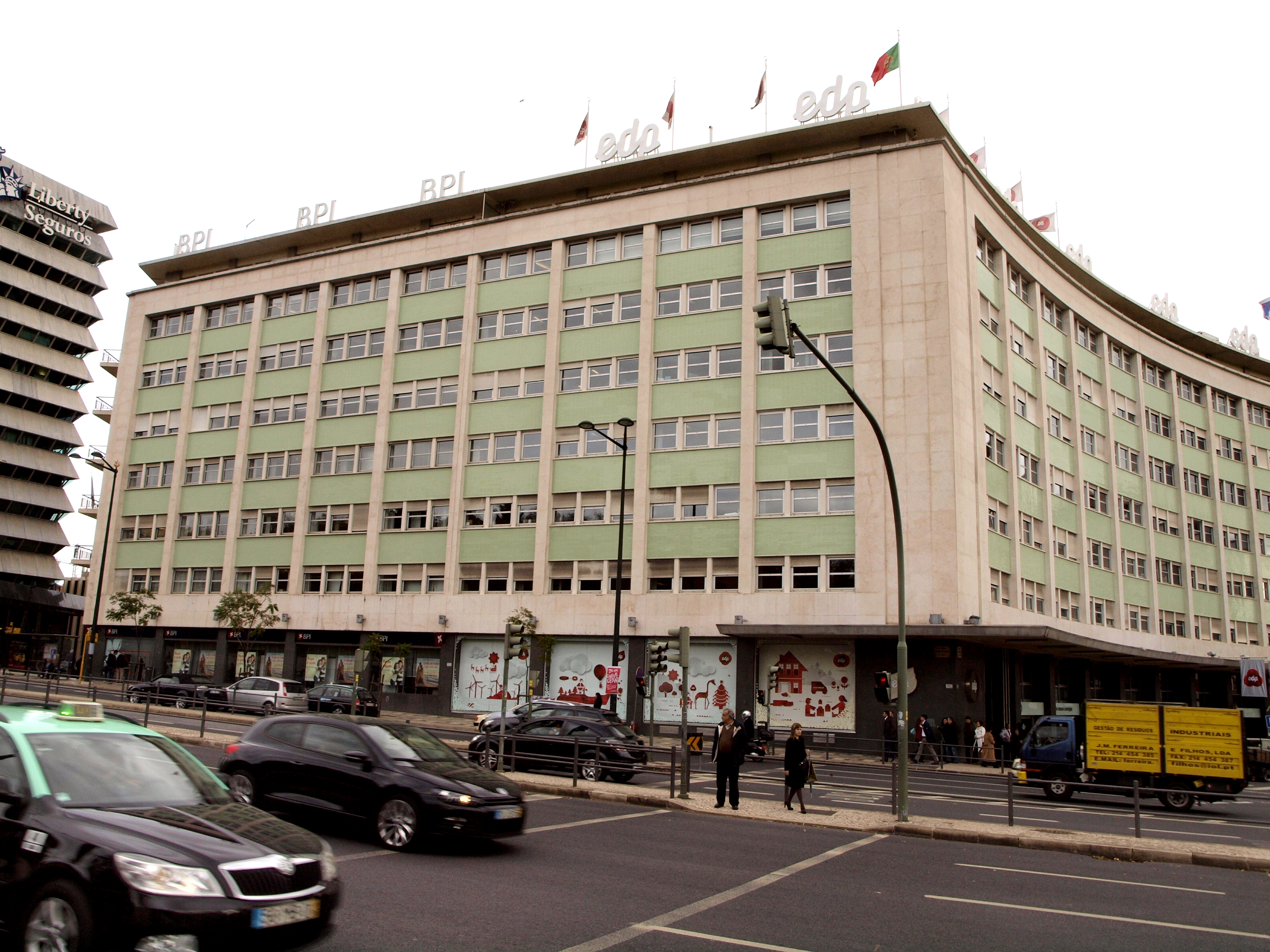 Headquarters of EDP at Marques de Pombal Square in Lisbon (2011)